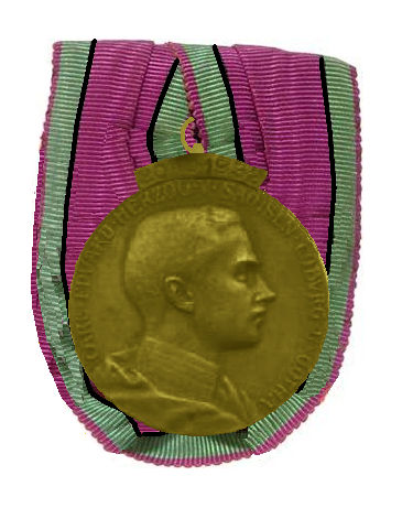 Erinnerungsmedaille an die Hochzeit der Prinzessin Sybilla Marriage Medal